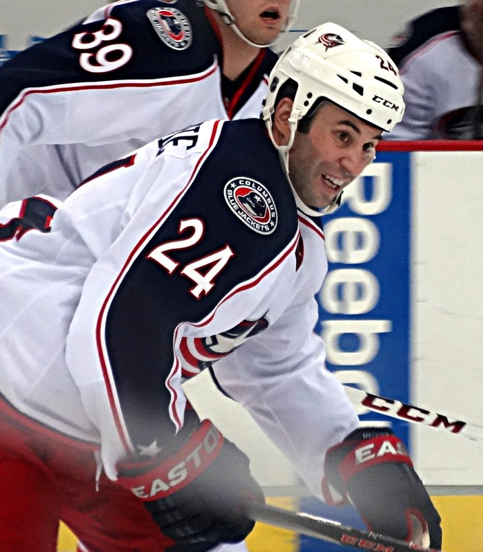 Columbus Blue Jackets forward Derek MacKenzie during a game against the Pittsburgh Penguins, November 1, 2013, at Consol Energy Center in Pittsburgh, PA.